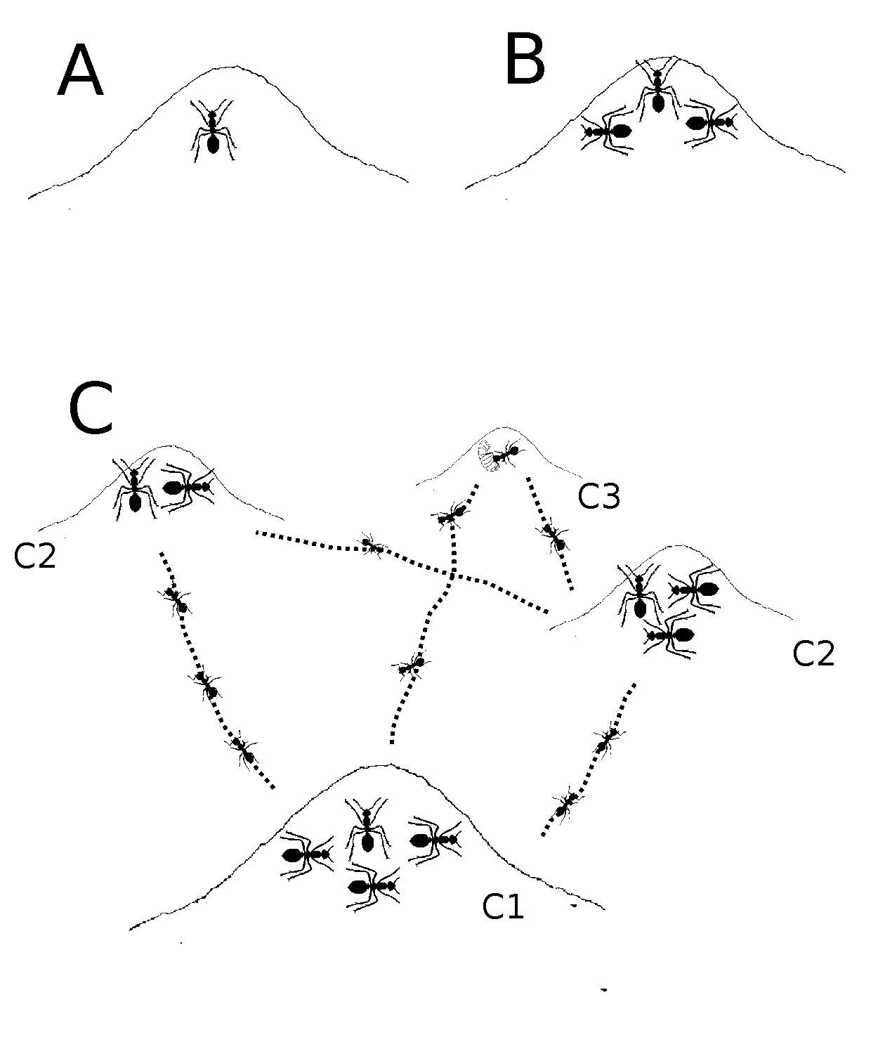 Schematic illustration of the 3 main types of social structure in ants, Legend : A Monogyny-Monodomy, B Polygyny-Monodomy, C Polygyny-Polydomy, C1 Main ant hill, C2 Secondary ant hill, C3 Seasonal ant hill